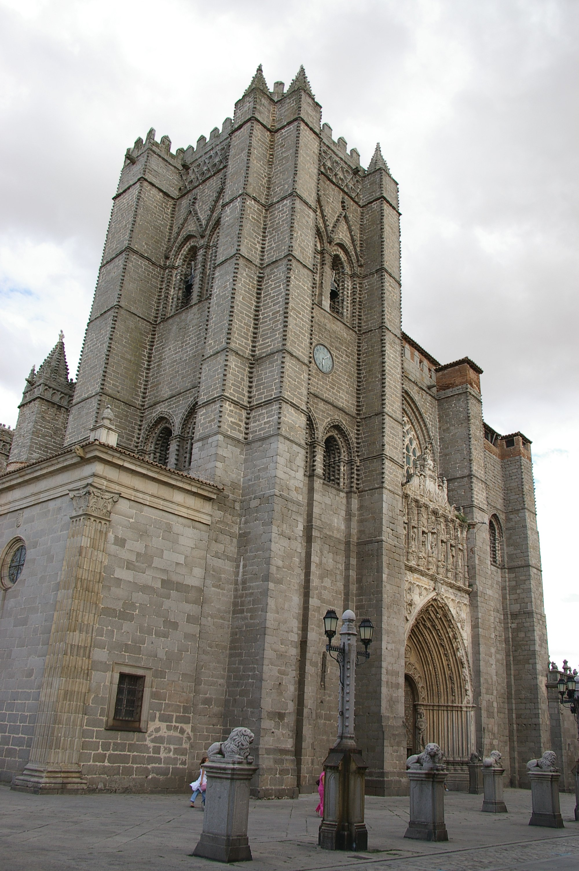 Main view of Ávila Cathedral (Spain).